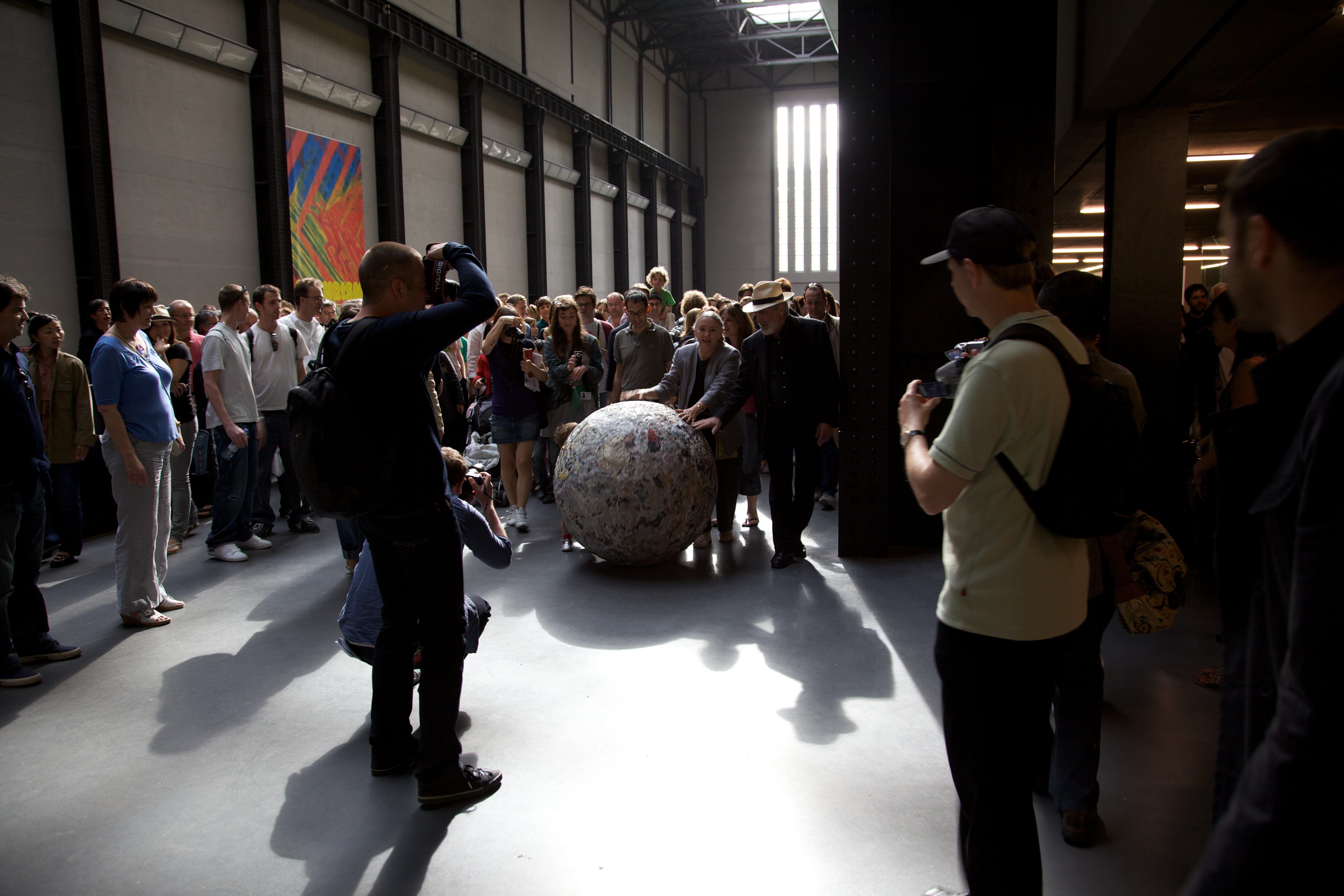 Newspaper Sphere. Michelangelo Pistoletto. Saturday 23 May 2009, 17.00–18.00 Michelangelo Pistoletto rolls a giant ball of newspapers through London streets. One of the key protagonists of arte povera, Michelangelo Pistoletto recreated his seminal action Walking Sculpture in London, first performed in 1966 on the streets of Turin. The original sculpture Ball of Newpapers, a two metre globe made of newspapers, which embodied the constantly shifting, newsworthy events of life over a two-year period, was taken for 'a walk' through the streets of Turin with his wife Maria Pistoletto in an action entitled Walking Sculpture, creating a political, yet playful gesture. A contemporary replica of the original sculpture was made using today's newspapers to represent today's political and social condition. It was rolled by Michelangelo and Maria Pistoletto from Tate Modern, across the Millennium Bridge, through parts of the city, and then complete it's journey back to Tate on a boat.